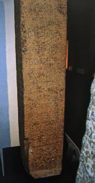 Colombo museum Rajendra Chola II inscription, 1054-1063 AD